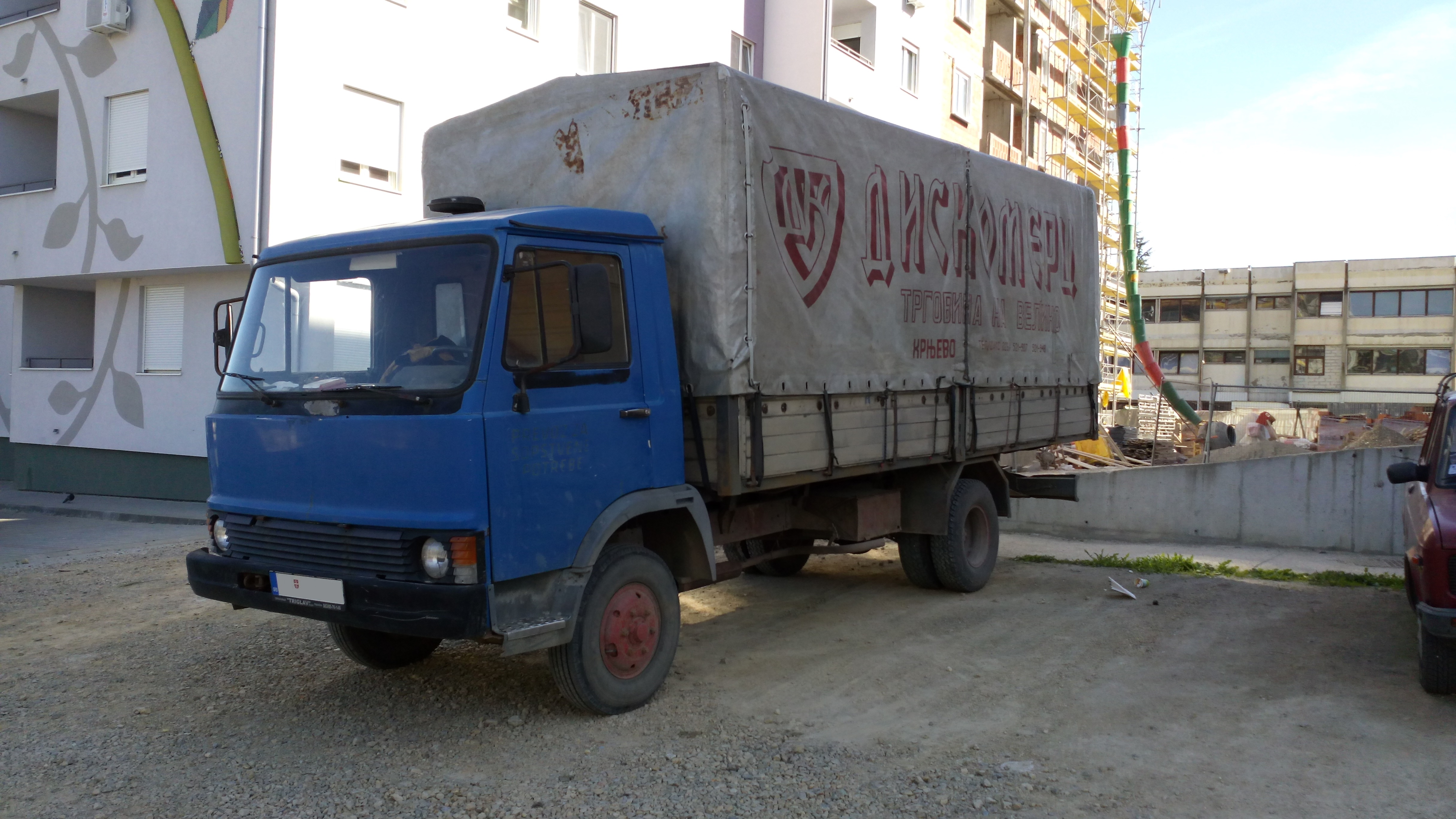 Zastava 645 truck in Kragujevac